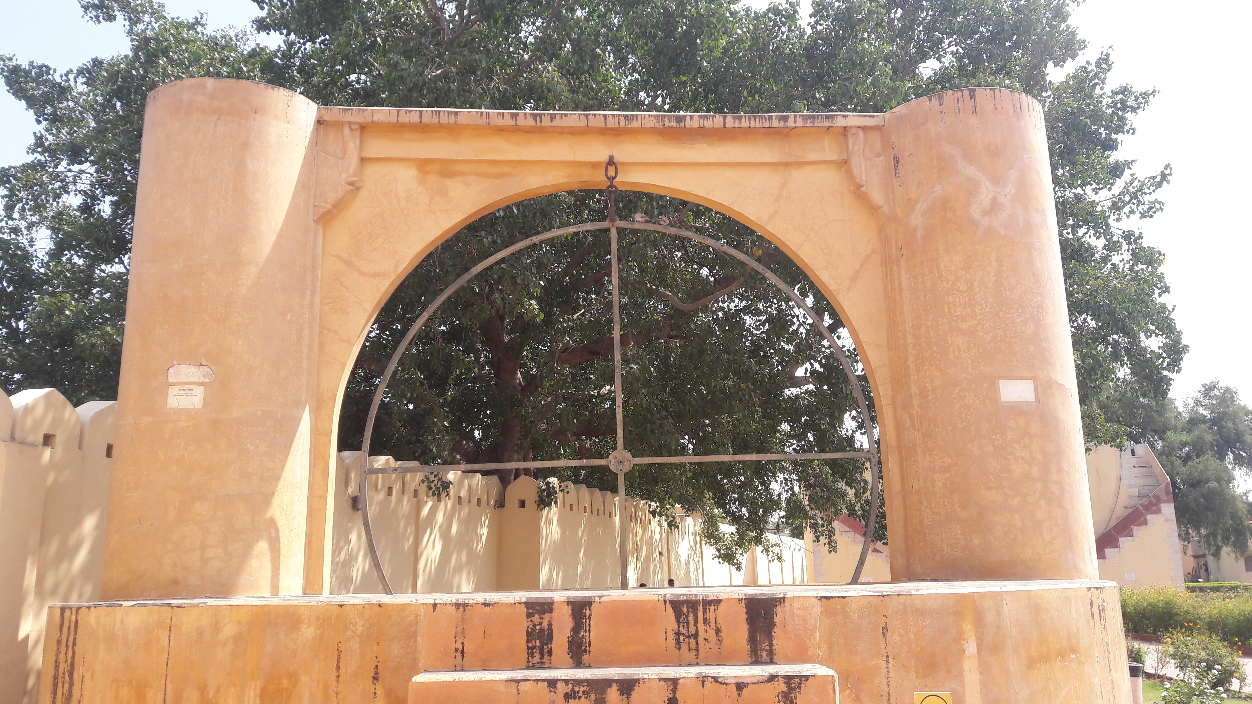 Unnat: elevated, Amsa: division, degree of arc Unnatamsa is an instrument for measuring altitude - the angular height of an object in the sky. The large graduated brass circle hung from the supporting beam is the measuring instrument of the Unnatamsa. The brass circle is pivoted to rotate freely around a vertical axis.